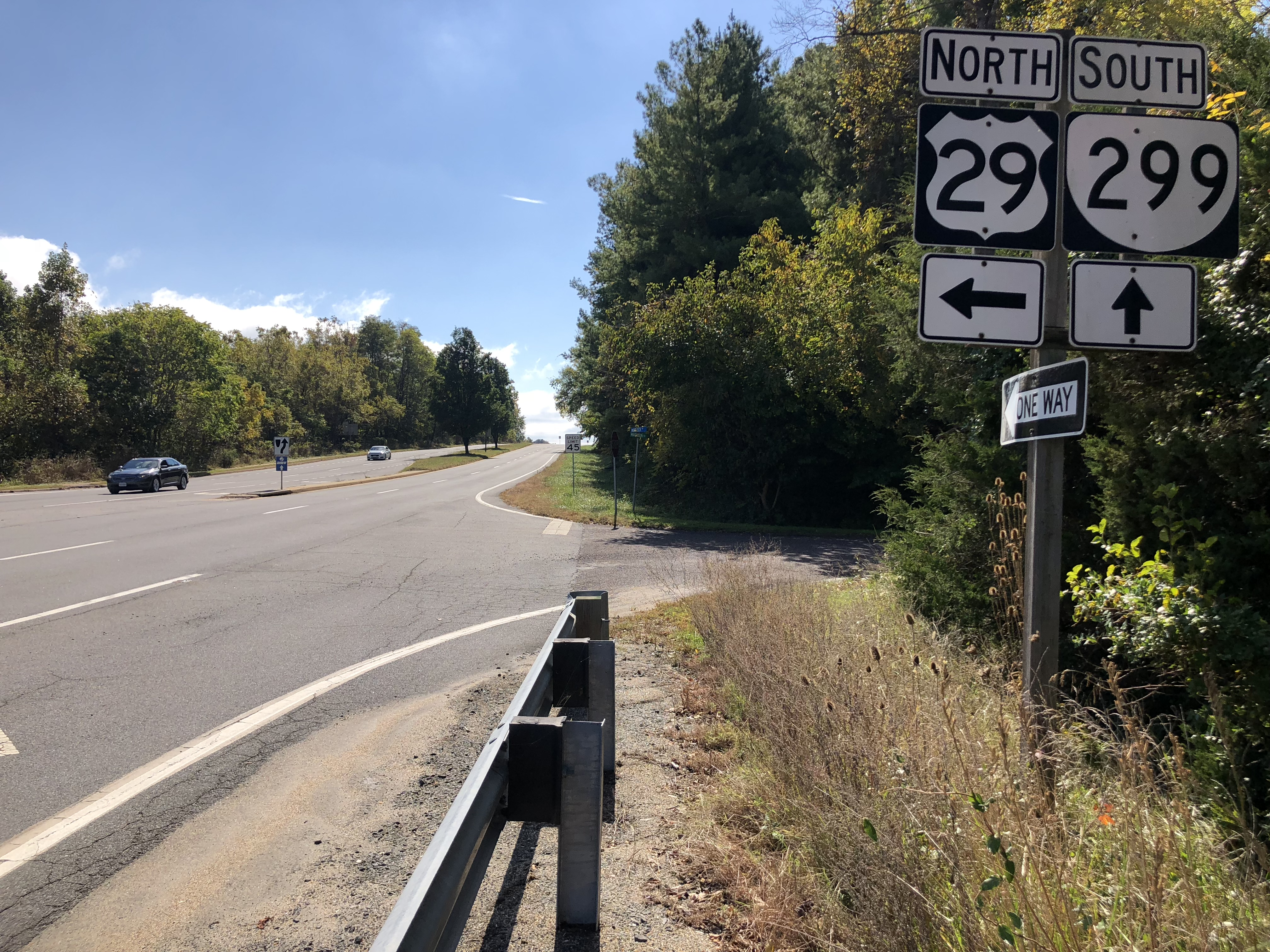 View south along Virginia State Route 299 (Madison Road) at U.S. Route 29 (James Monroe Highway) just southwest of Culpeper in Culpeper County, Virginia